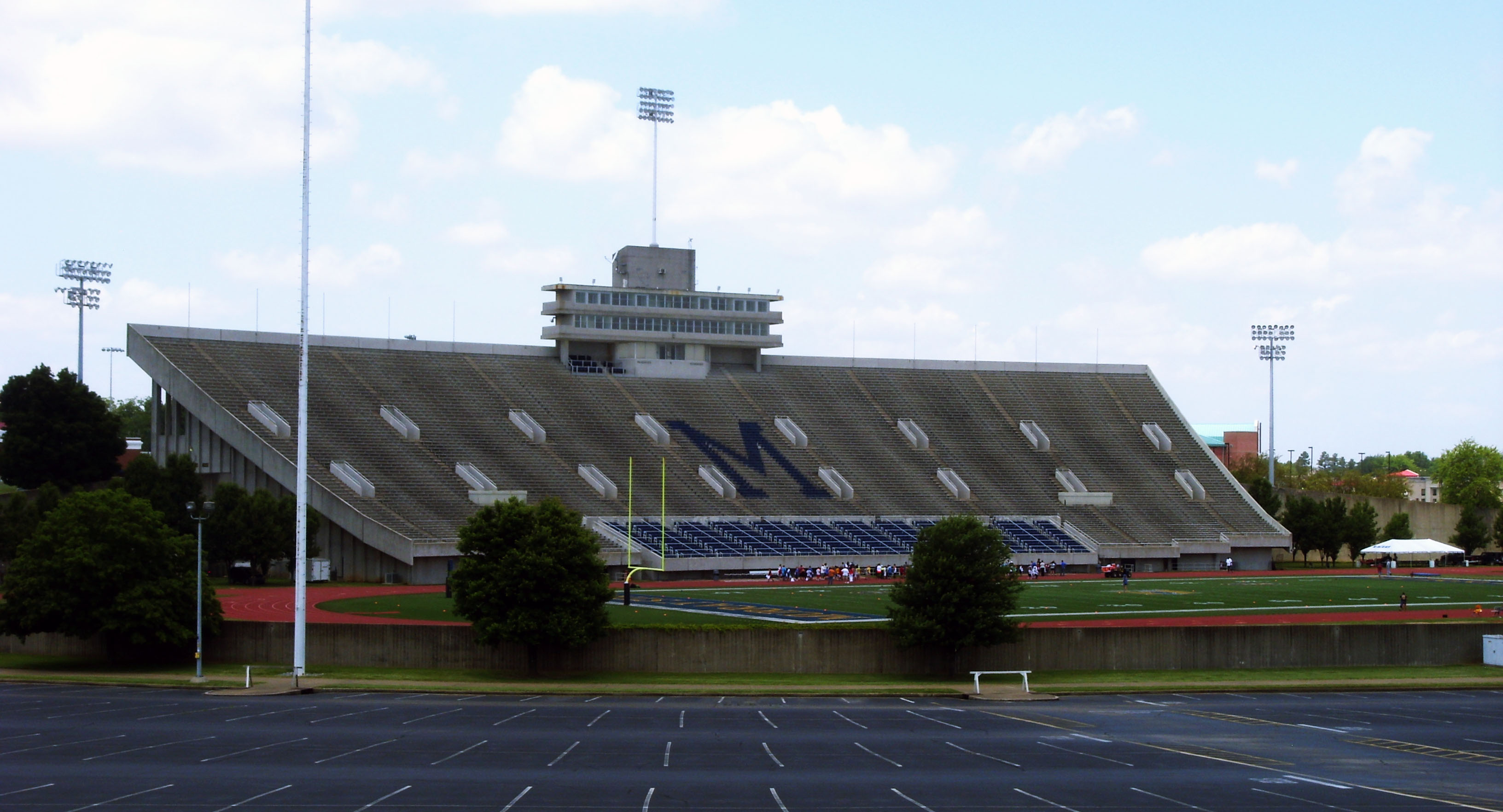 Roy Stewart Stadium at Murray State University